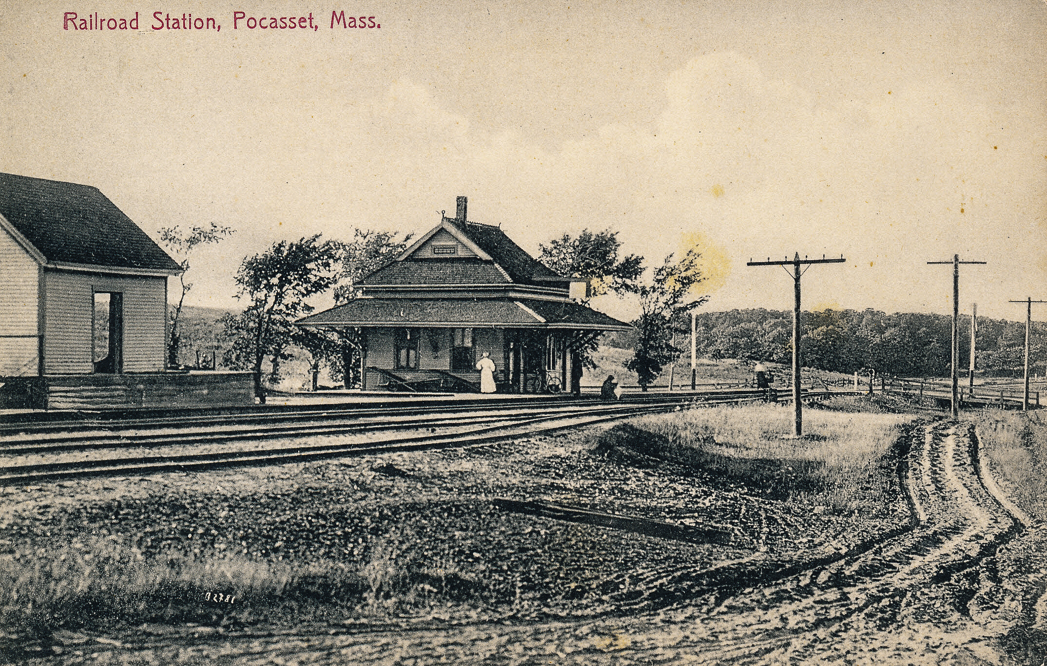 An early postcard showing the former Pocasset, Massachussetts train station and freight house on Cape Cod. The imprint on the rear of the card reads:Publ. by W. B. Lumbert, Pocasset, Mass. No.5013 This would appear to be an image of the Pocasset station as it existed at some point between 1906 and 1914.